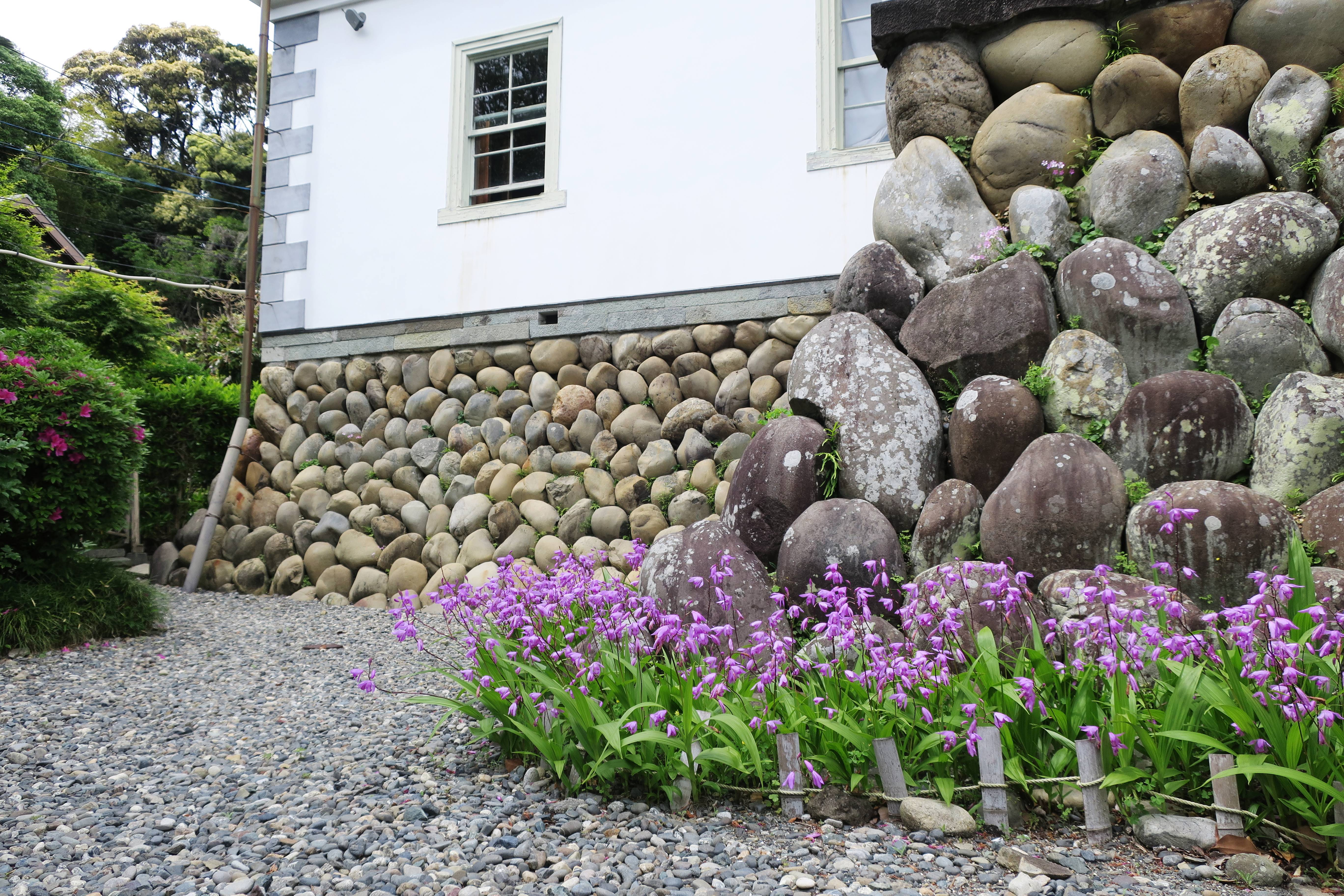 Old Mitsuke School (Iwata, Shizuoka).